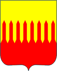 Coat of Arms of Zubtsovskii rayon (Tver oblast)